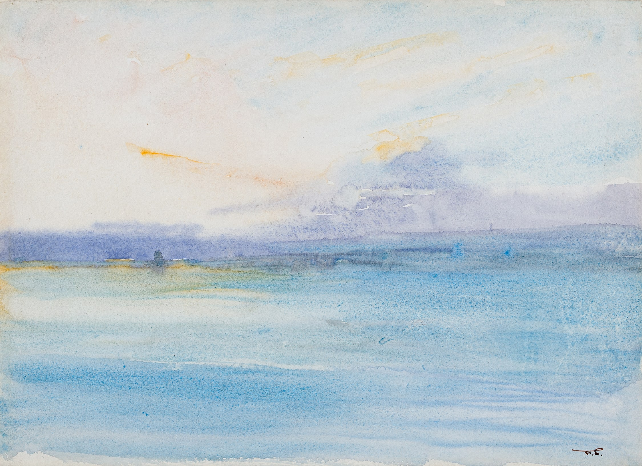 Watercolour. Signed. Inscribed verso. 10x14 inches. Offered for sale by Abbott and Holder in September 2019.